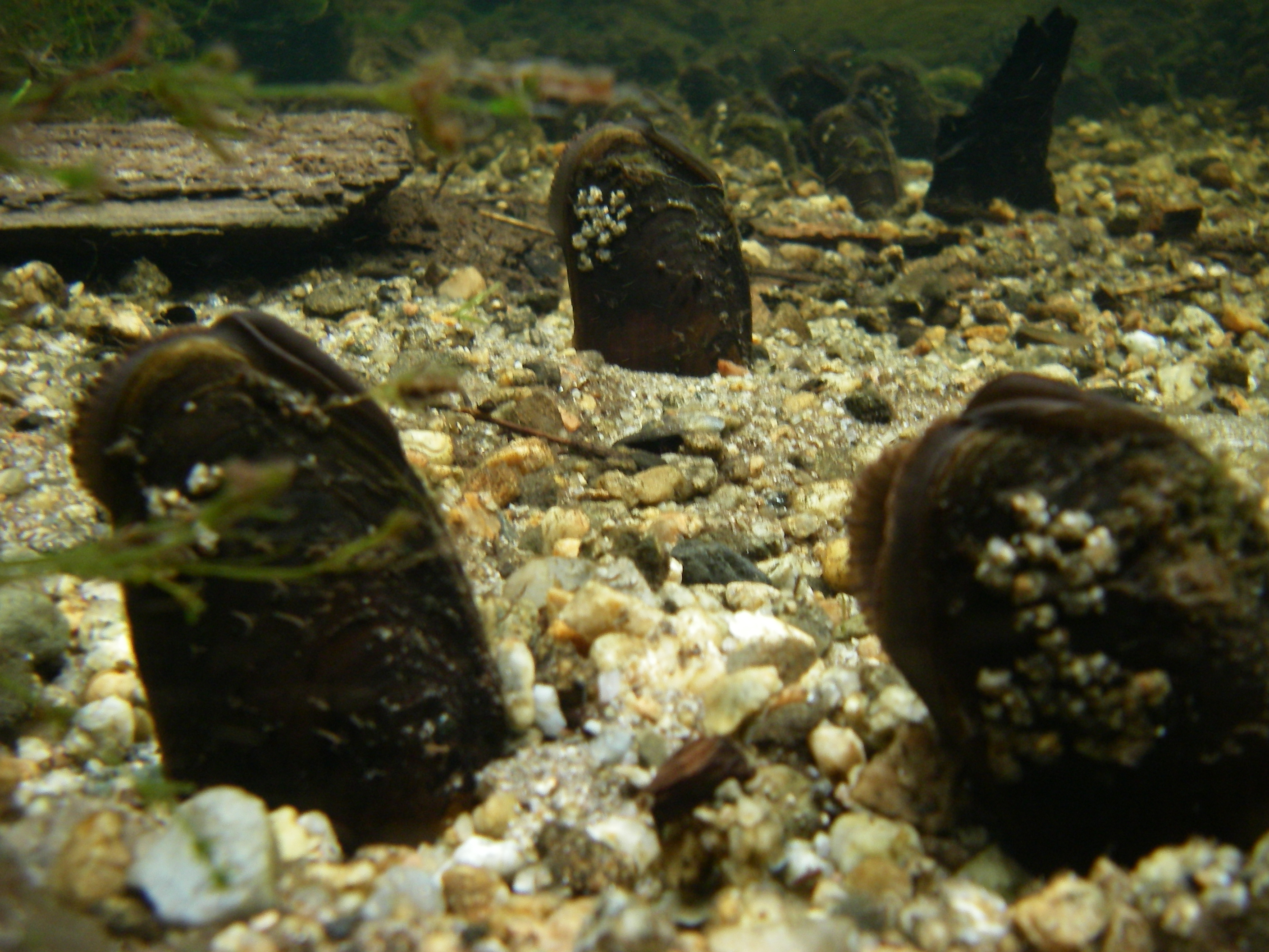 Freshwater pearl mussel (Margaritifera margaritifera), Swedish "Flodpärlmussla", from the river Navarån, Västernorrland, Sweden.